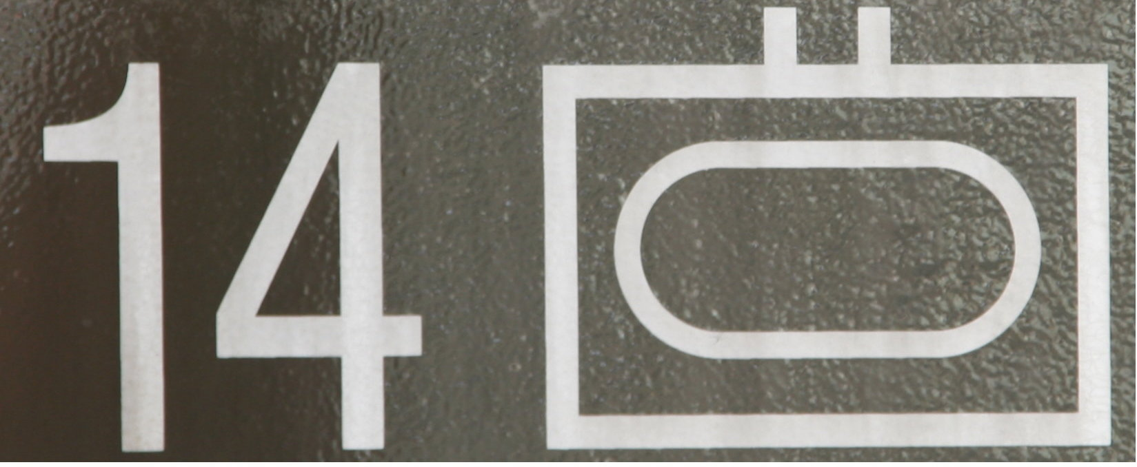 Tactical sign PzBtl 14. (Tank Bataillon 14) of the Austrian Bundesheer